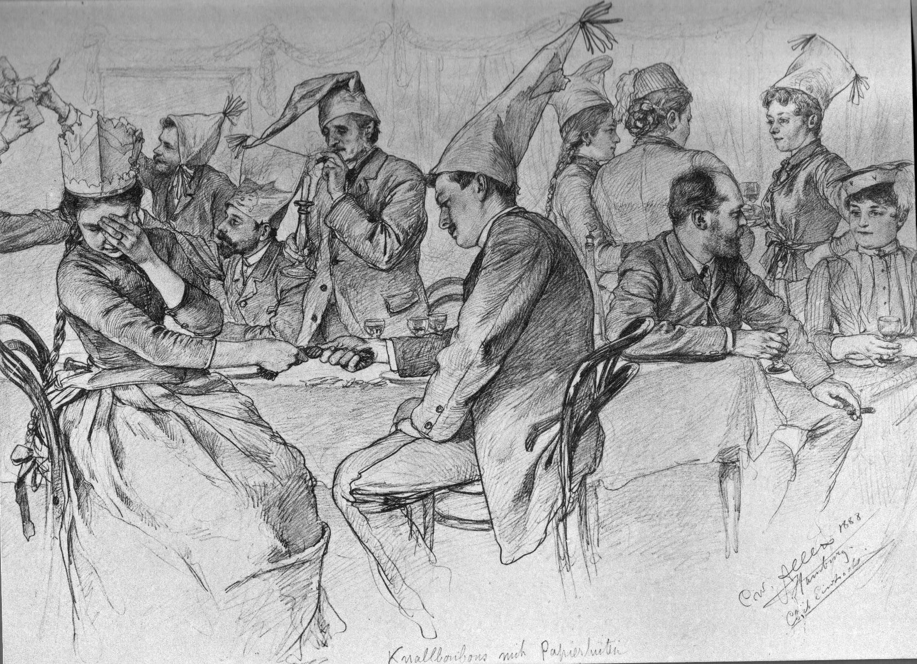 Christmas Crackers.